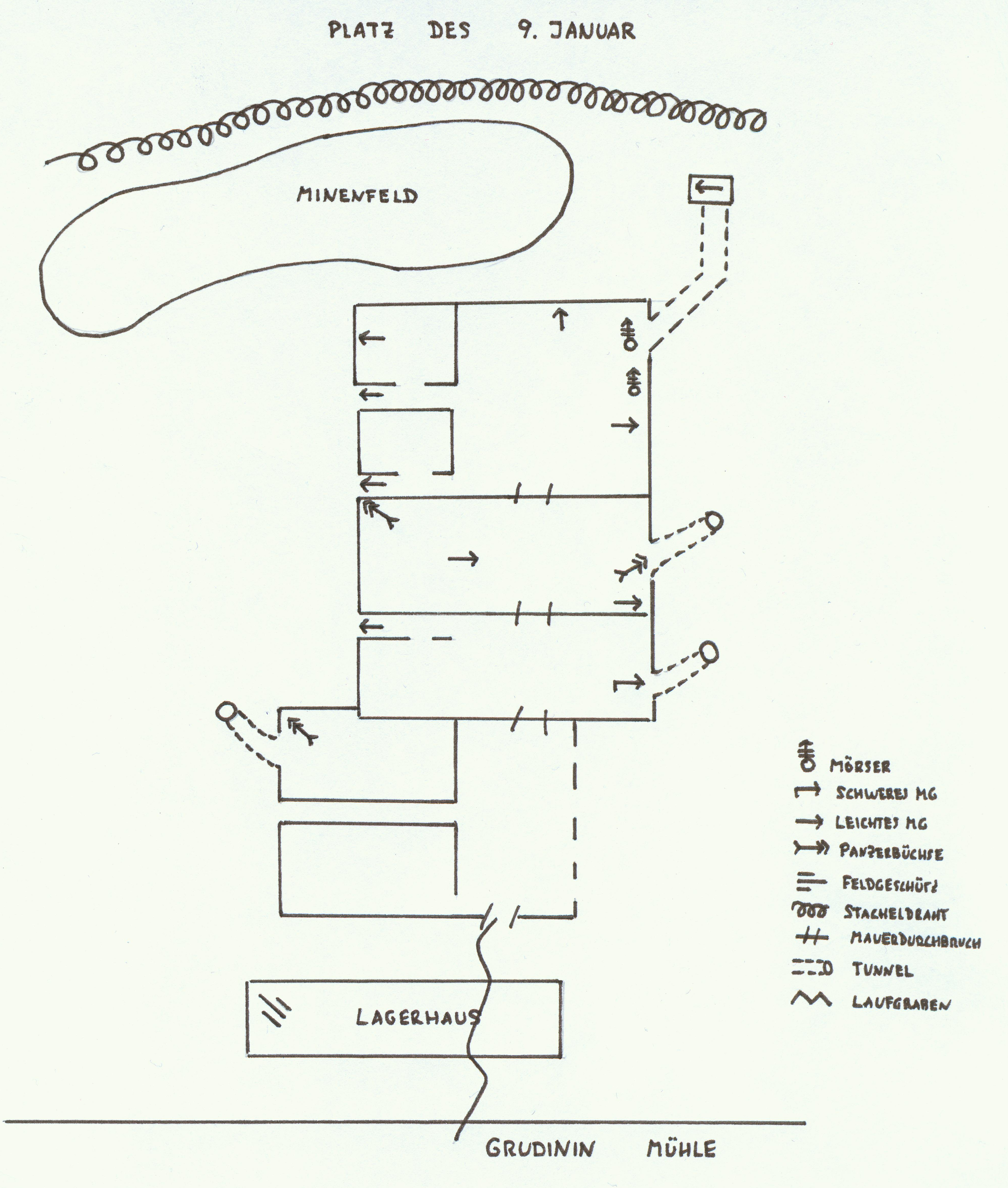 draw-out sketch according to tactical maps of unknown sourcce